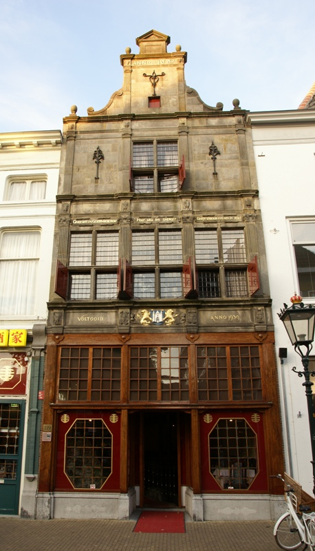 National monument no. 23106 - Oudestraat 119, Kampen, The Netherlands.